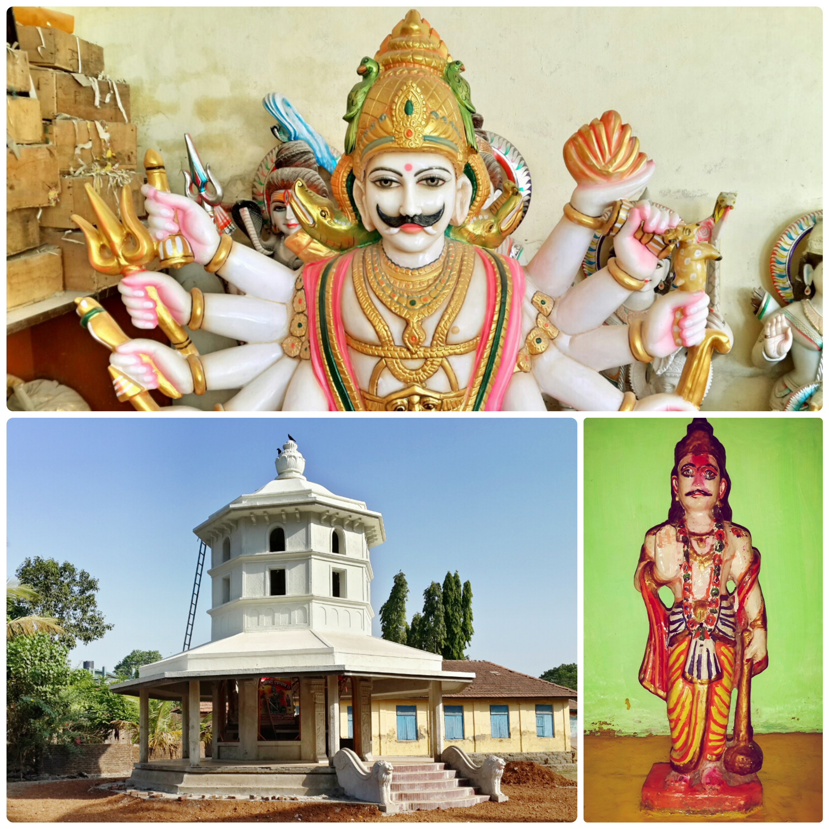 Shree Veerabhadra' is kuldaiwat of all Mhatre brothers.It is Jagrut Devasthan and is also the first mandir of Lord Veerabhadra in the entire raigad district.